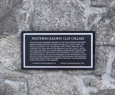 Descriptive plaque on original railway shed of Pentewan Railway St Austell England